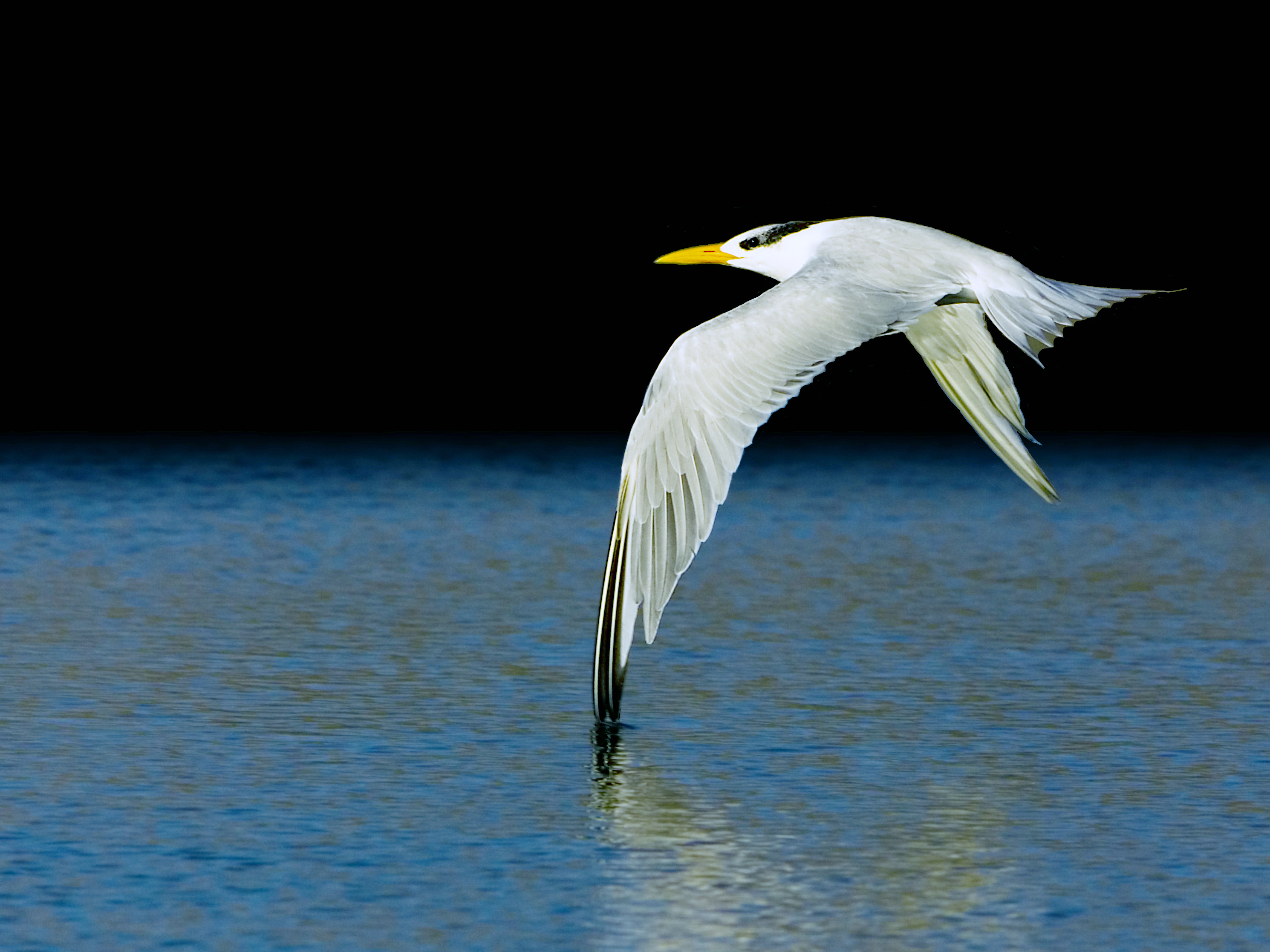 Royal Tern (Sterna maxima) flying over Morro Strand State Beach, Morro Bay, California, USA. Technical: Canon 5D, EF300mm f/2.8L IS USM lens w/ EF 1.4X II Extender, 1/1600 shutter priority, f/8.0, ISO 640, on monopod. This image has been somewhat enhanced in Photoshop - the most dramatic "manipulation" is the use of a gradient fill to darken the "sky"... I took this shot late in the day (~5PM), standing in the water at a very low tide... the bird was over the water but between me and the beach (you can see its wing touching the water), and the background was in fact not the sky, but of the sky and vegetation reflecting on golden wet sand, which reduced the contrast of the subject I was looking for. See for comment on identity. Mike Baird